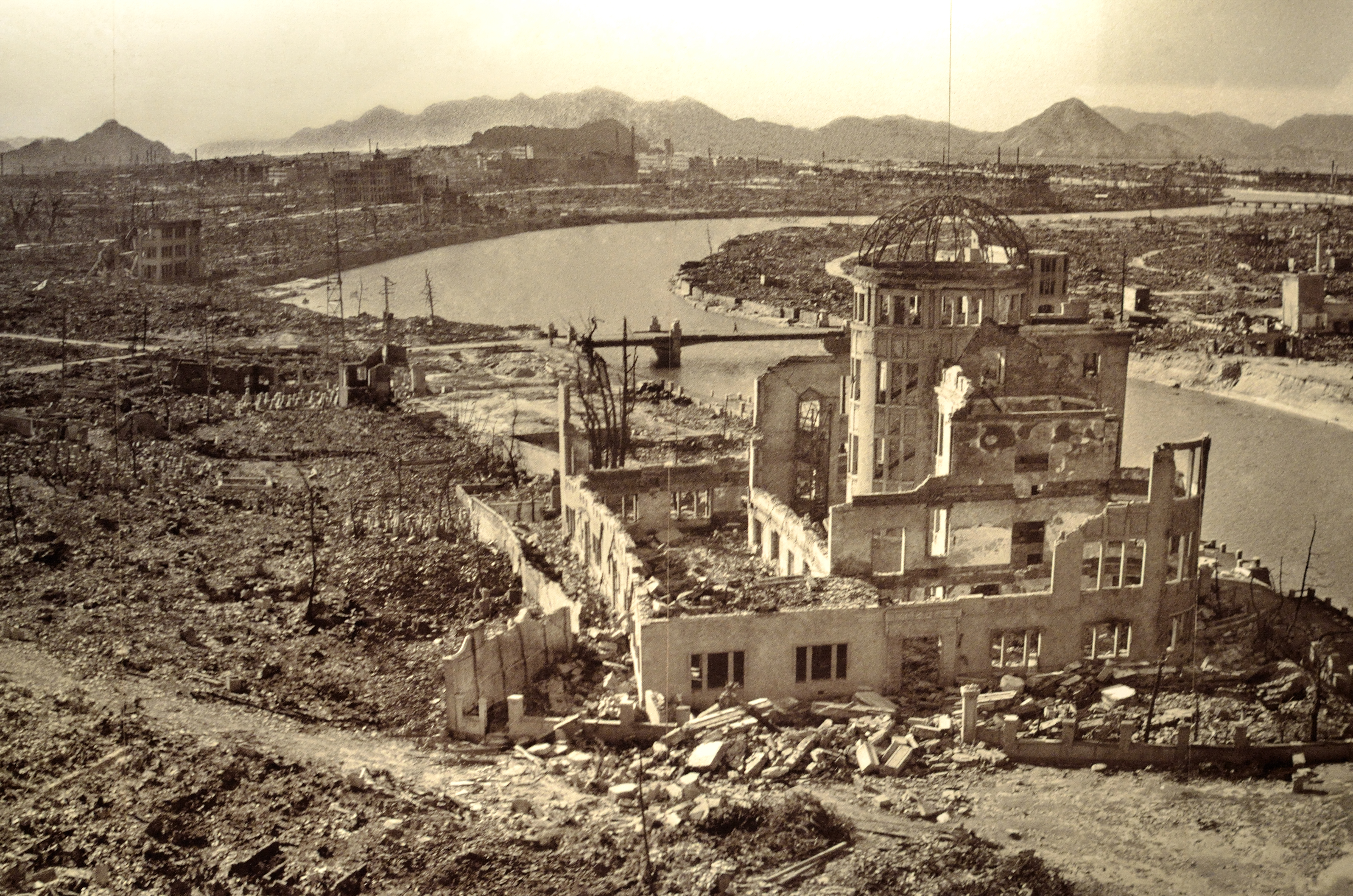 Picture taken at the museum in Hiroshima. It shows the devastation of the A-Bomb dropped on 6 August 1945 on Hiroshima.